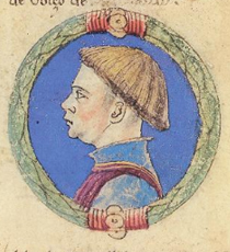 Niccolo I d'Este